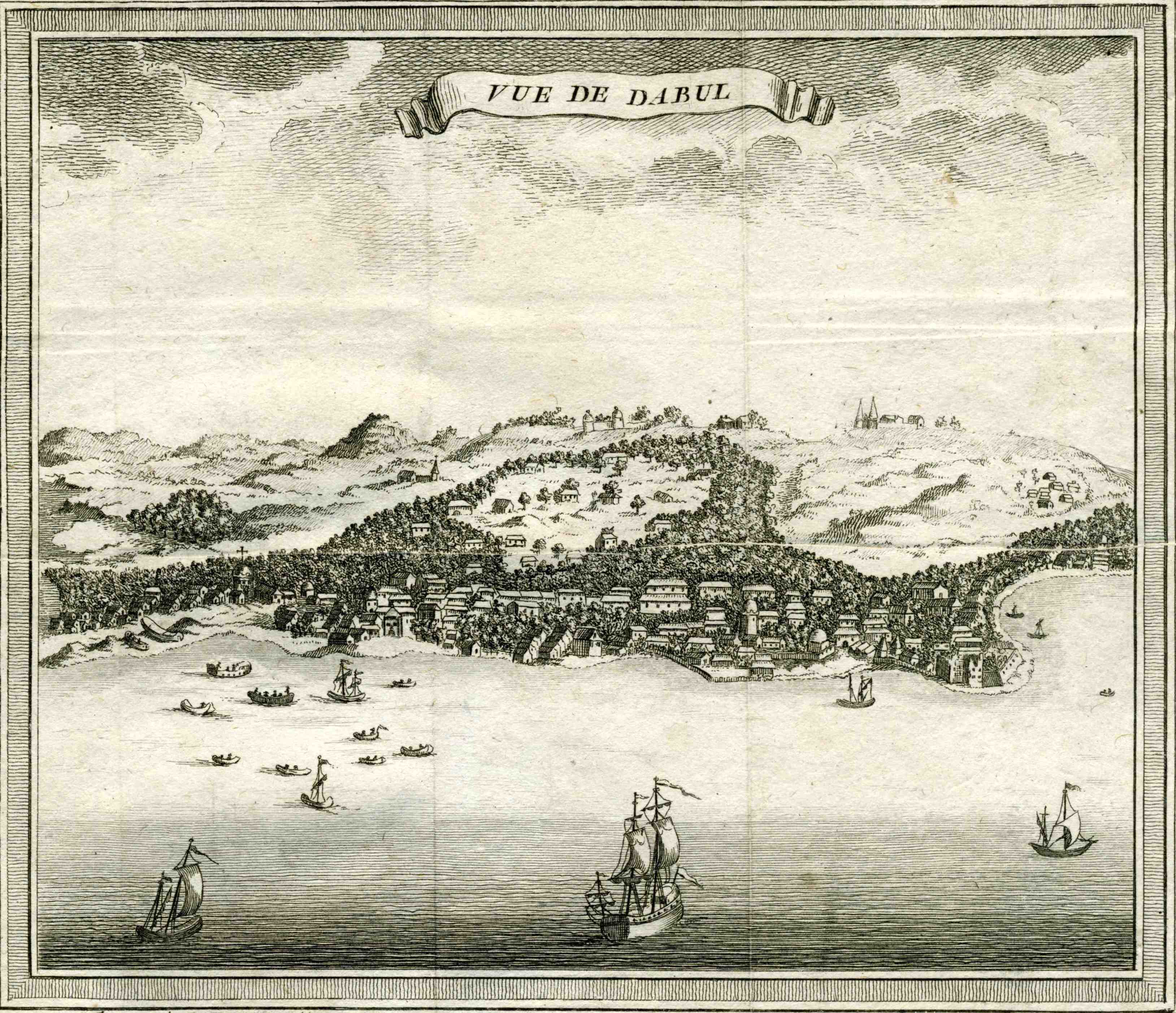 Engraving: view of Dabhol